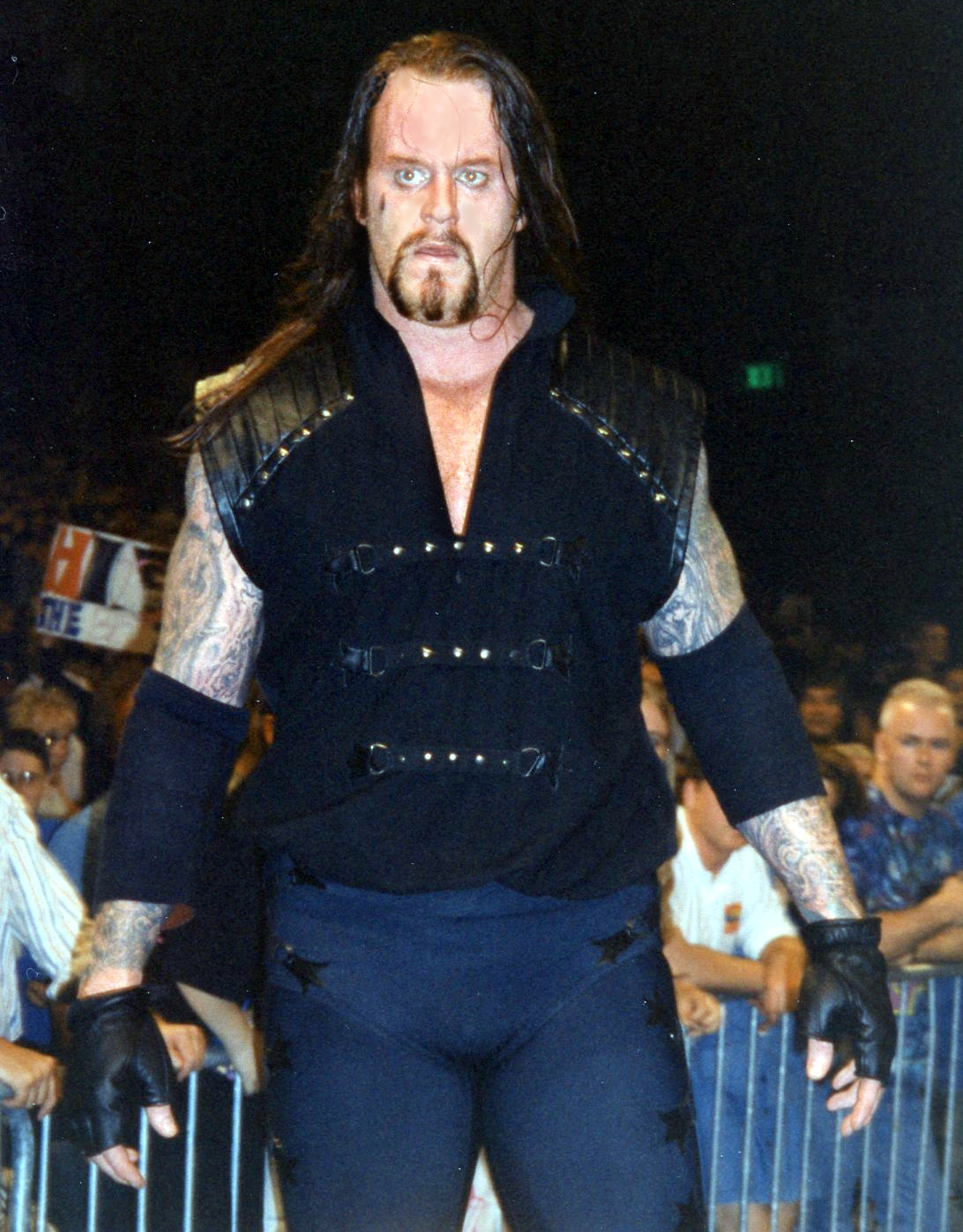 Undertaker outside the ring during a match with the WWF World Champion, Bret Hart, at the "One Night Only" pay-per-view event in Birmingham, England. Taken September 20, 1997.